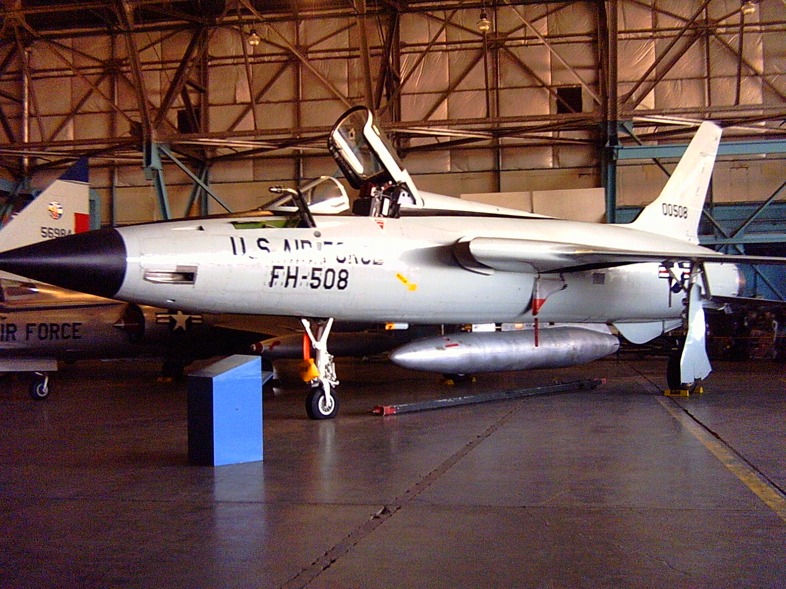 Republic F-105D Thunderchief at Wings Over the Rockies Air and Space Museum, Denver Service History Thunderchief 60-0508 was delivered 8 November 1961 from Farmingdale, NY to USAF(USAFE) Brookley AFB Mobile Air Materiel Area (AMA), AL, November 8, 1961. (Republic's contract no. 38927 project 88, 196th in production line.) 17 Dec 61 -- Assigned to 4440th Aircraft Delivery Group 20 Dec 61 -- To 49th TFW, USAFE, Spangdahlem AB, (FRG) Germany (Prelimary research by John Graff, past Military A/C Curator, WOTRASM, 508 assigned to 8th TFS, circa 2000) 27 Oct 62 and 8 Aug 64 -- Back to Brookley AMA, AL for modification work (Project LOOK-ALIKE); returned to 49th after each period 17 Jul 65 -- To CASA Getafe, Spain, for maintenance (presume "SIXPACK" mods and camo paint) 12 Aug 65 -- To 3415th Maintenance and Supply Group, ATC, Lowry AFB, Denver CO, as tech training airframe. 28 Feb 66 -- struck from USAF inventory Oct 75 -- To Lowry Tech. Traning Center, Lowry AFB 18 Mar 76 -- Dropped from mntce inventory, to parade grounds circa 84 -- To Lowry Heritage Museum, Lowry AFB Dec 94 -- To Wings Over the Rockies Air & Space Museum, (Lowry AFB closed), Lowry Campus, Denver CO Flight hours logged 1961 -- 21 1962 -- 230 1963 -- 290 1964 -- 217 1965 -- 110...... Total 868 flying hours. Sources: Dave Gurtner and his research associates at Maxwell AFB's History Office report to Lowry AFB (report on file at Wings Over the Rockies Museum); and from British Aviation Review, by the British Aviation Research Group, November 1995 (p. N1115). Also, date details of flight hours provided by Theordore W. Van Geffen, Jr, author of F-105 Profile No. 226, letter from Geffen to Lowry (LTTC) 6 Jun 84 (on file Collections Dept. Wings Over the Rockies Museum). Note: As of 10 Nov 06, 8th TFS assignment has not been confirmed or verified, Lance Barber, Curator Mil A/C.